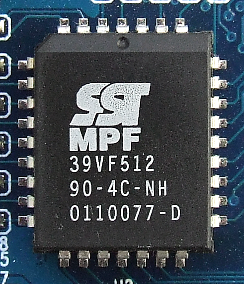 Silicon Storage Technology (SST) 39VF512 EEPROM flash memory IC.